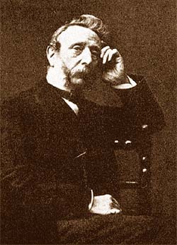 Richard Leach Maddox (4 August 1816 – 11 May 1902) was an English photographer and physician who invented lightweight gelatin negative plates for photography in 1871.